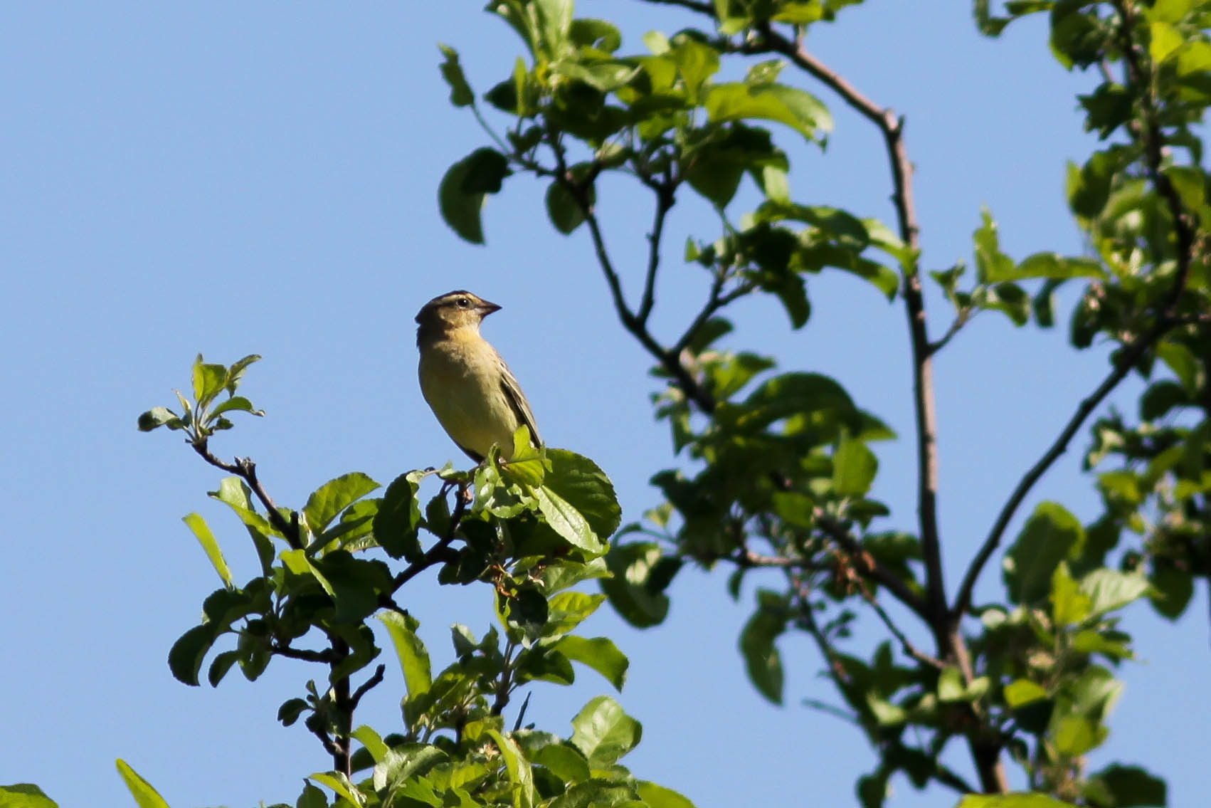 Dolichonyx oryzivorus